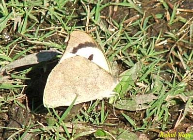 Common Albatross Butterfly clicked at Miao, Arunachal Pradesh in Nov 2005